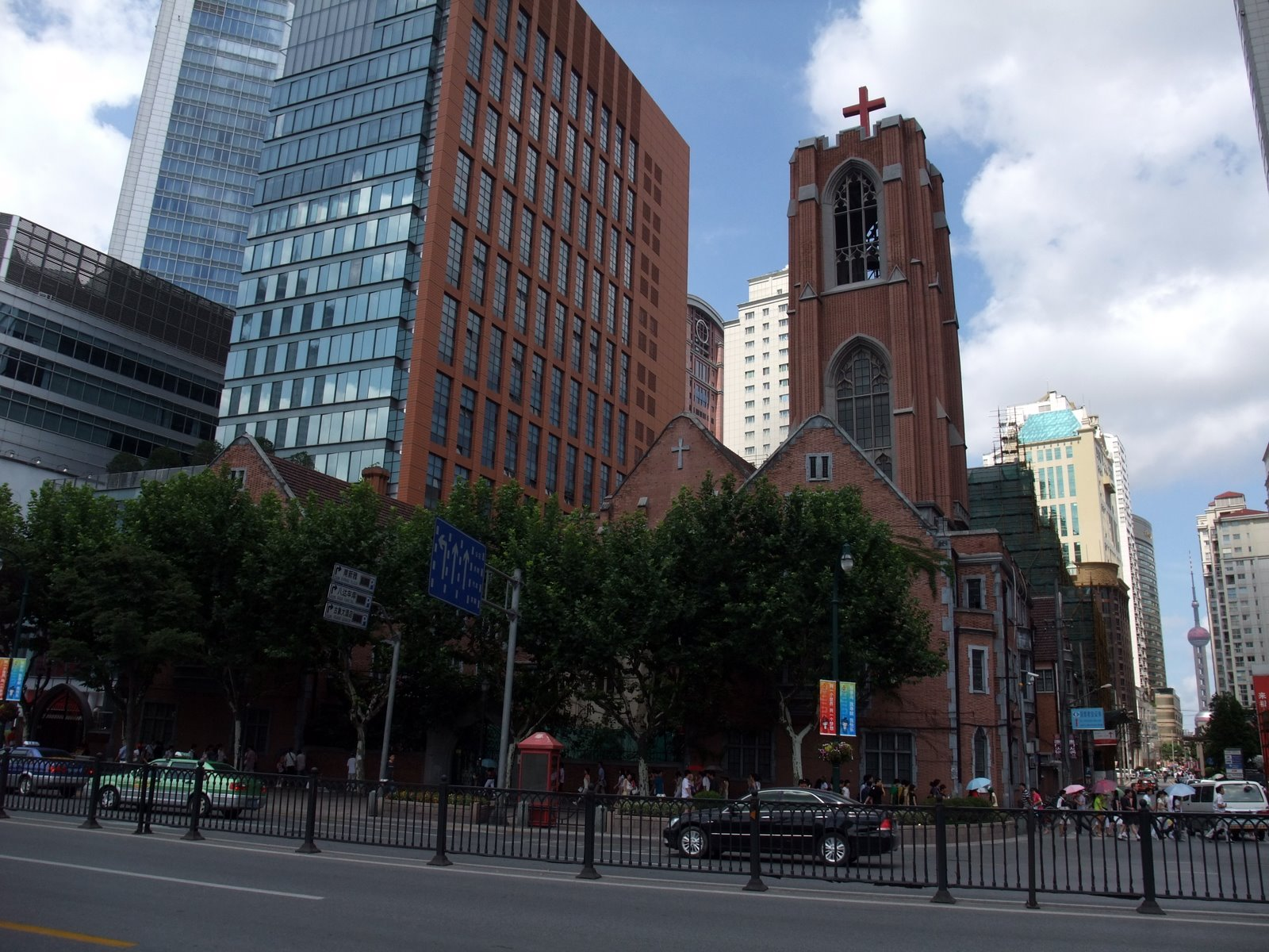 Mu_er_Tang